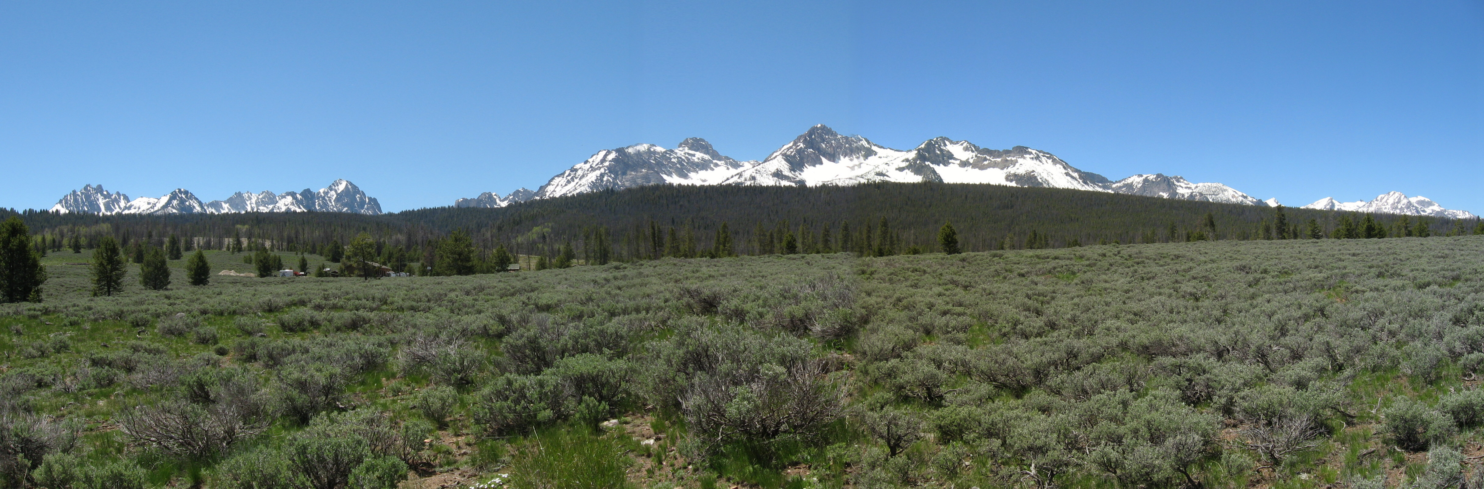 The Sawtooth Mountains south of Stanley in the Sawtooth National Recreation Area in Custer County, Idaho